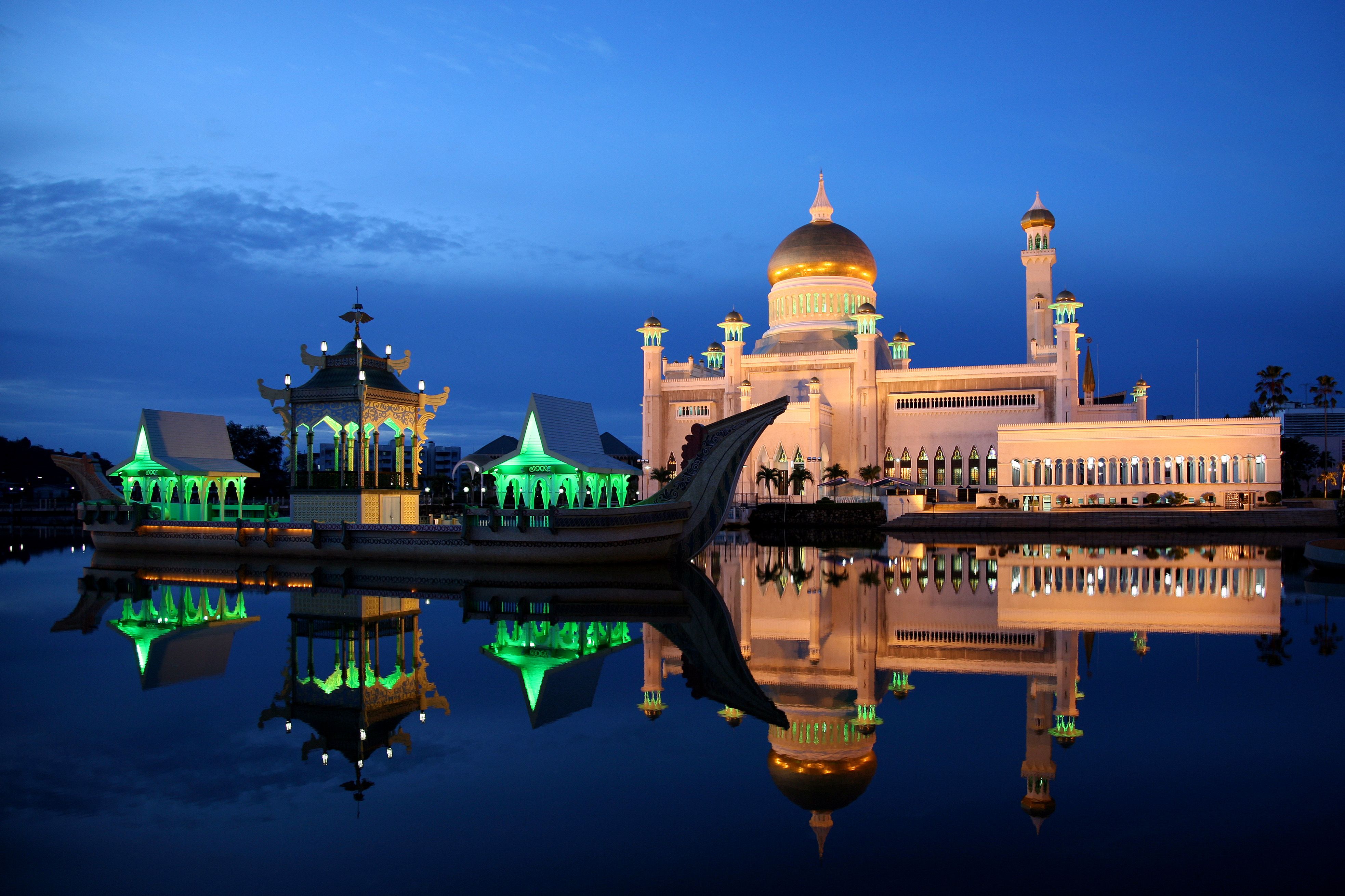 Dusk at the Sultan Omar Ali Saifuddin Mosque in Brunei on the eve of Ramadan. Minutes before, a muslim prayer rang from the church speakers.